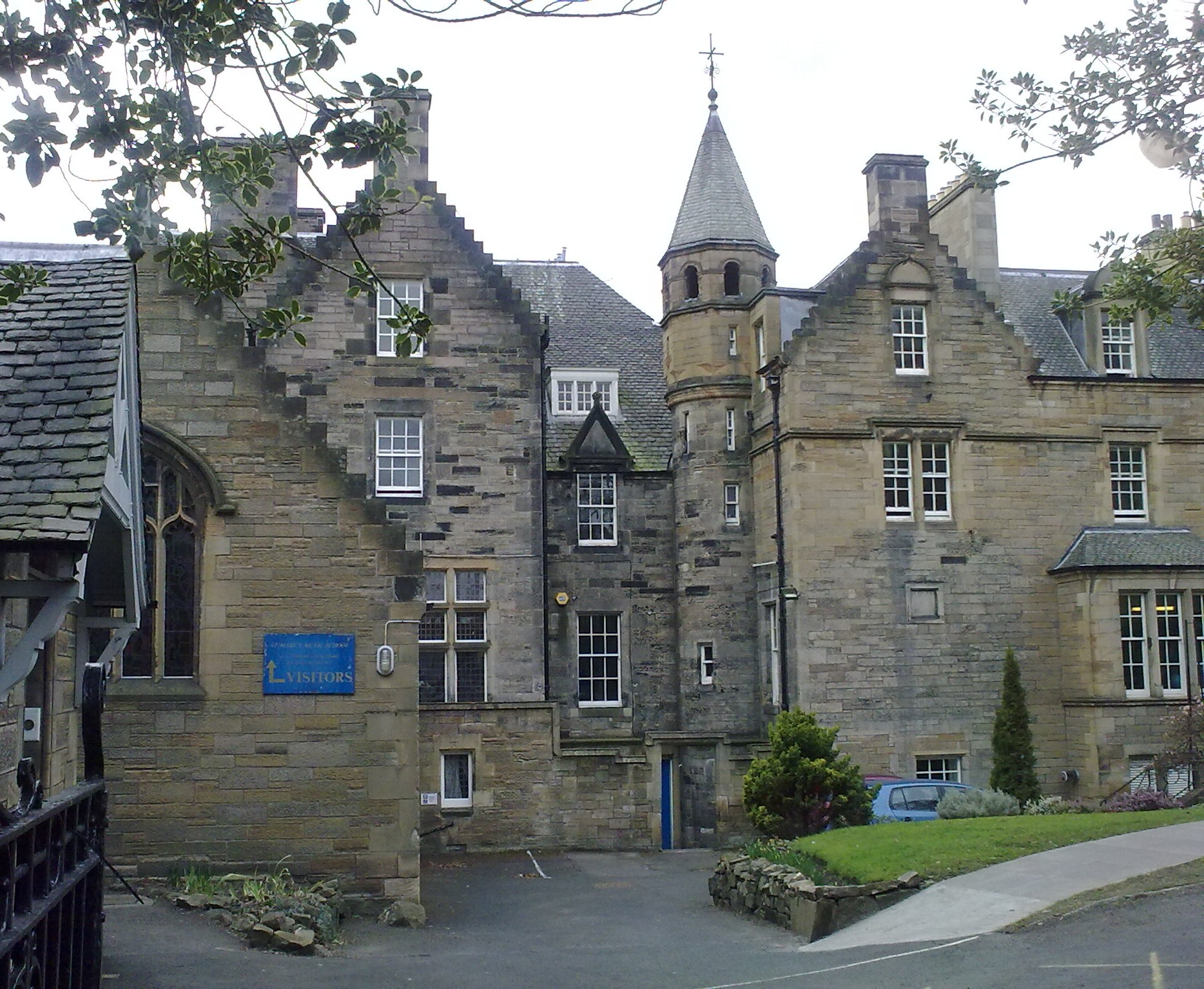 St Mary's Music School. Edinburgh. Scotland. Formerly Edinburgh Theological College, closed 1994.